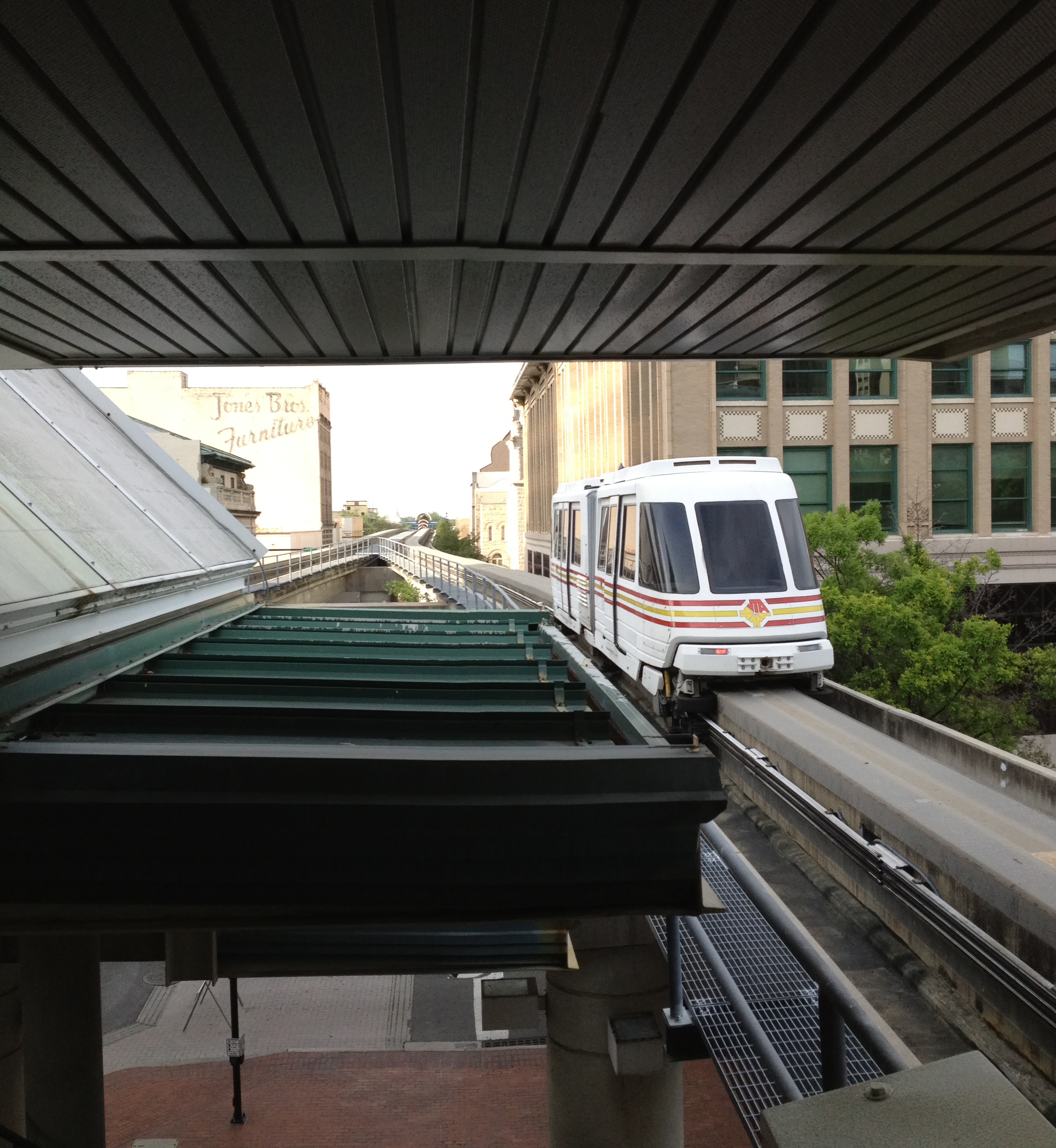 Hemming Plaza Station, Jacksonville, Florida